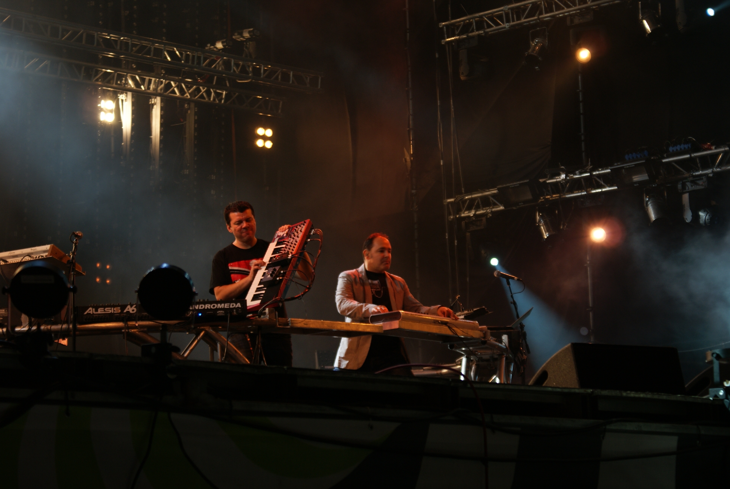 Orange Warsaw Festival 2009, Pl. Defilad, Warsaw, PolandThe Crystal Method